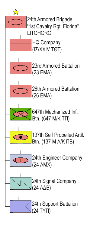 Hellenic Army 24 Armored Brigade Structure